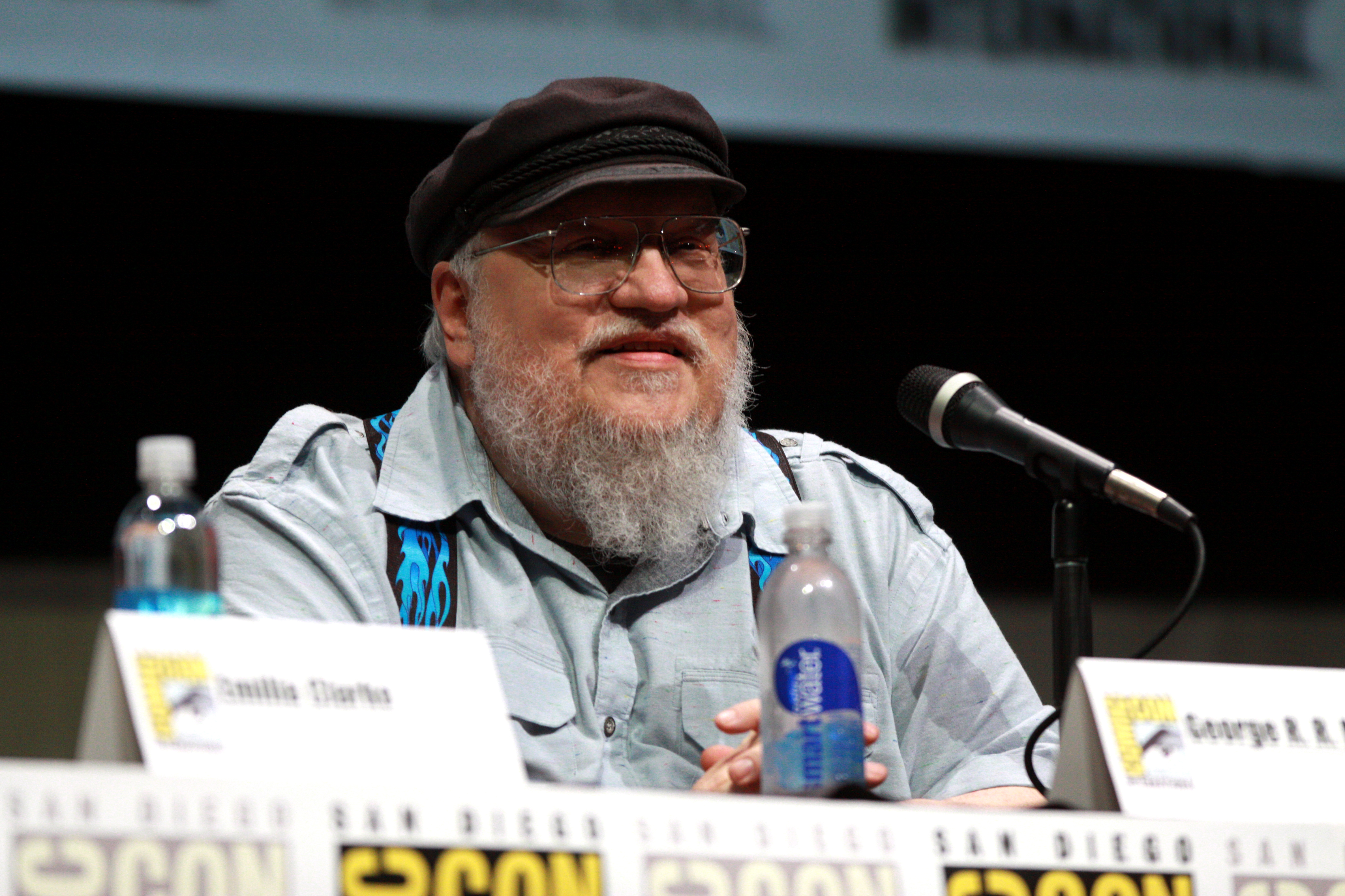 George R. R. Martin speaking at the 2013 San Diego Comic Con International, for "Game of Thrones", at the San Diego Convention Center in San Diego, California.